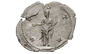 Source: English Wikipedia, original upload by Panairjdde Description: Cornelia Supera, wife of Aemilianus. AR Antoninianus (2.48 gm). :CORNELIA SUPERA, diademed and draped bust right, resting on crescent :VESTA, Vesta standing left, holding patera in right hand, transverse sceptre in left. RIC IV 30; Hunter 1; RSC 5. Nothing is known of this lady other than the information which is imparted by her extremely rare coinage of Roman antoniniani together with several provincial issues in aes. What evidence there is points to her having been the wife of the ephemeral emperor M. Aemilius Aemilianus.